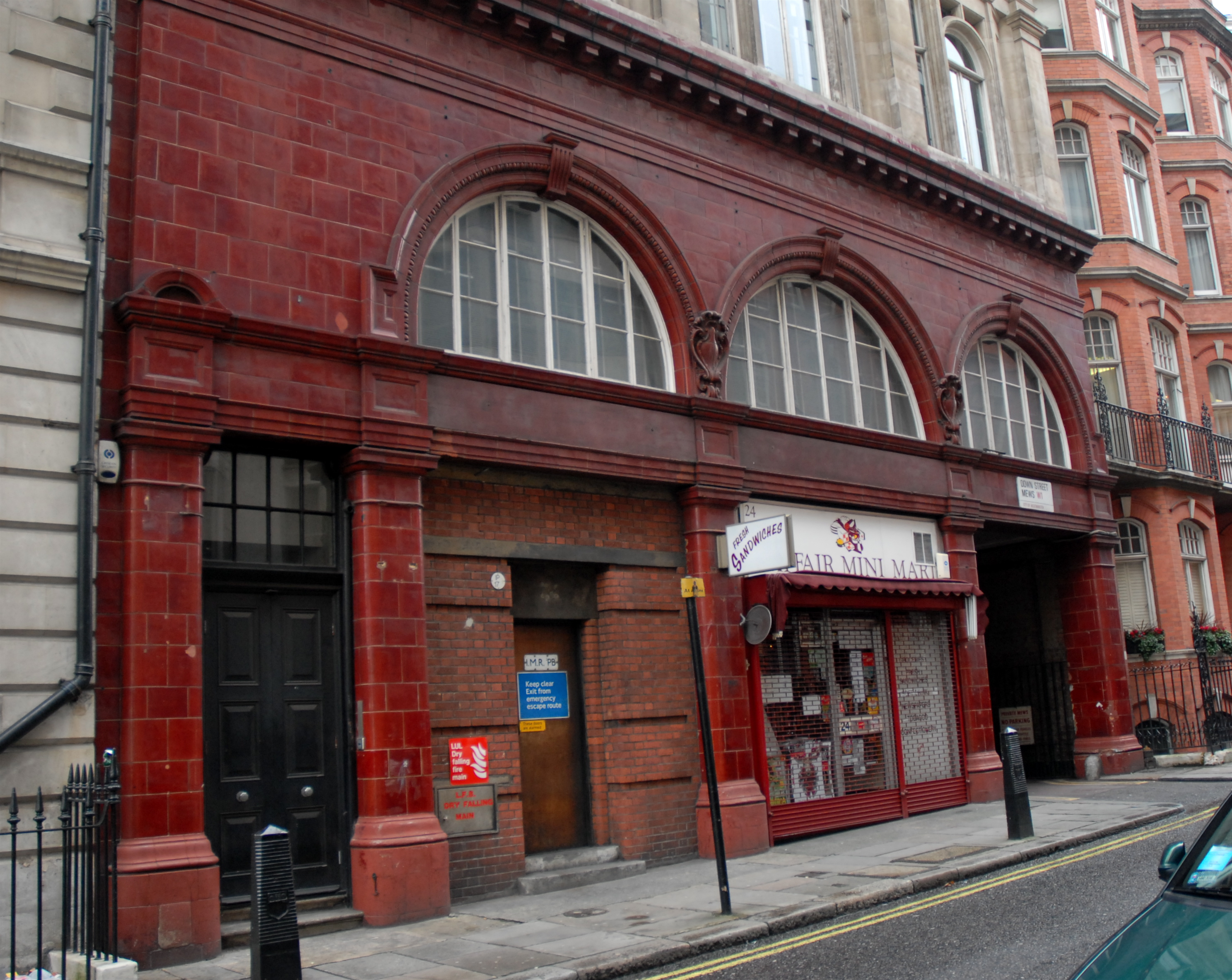 The surface building (immediately recognisable by the GNP&BR "bull's blood" tilework designed by Leslie Green) of Down Street station on the Piccadilly line, which closed in 1932. You can see why, as it's hardly any distance from Green Park and Hyde Park Corner on each side and set back off Piccadilly down a narrow street. During WWII the Railway Executive had its headquarters in the disused underground parts of the station, and it was also regularly used by Churchill for cabinet meetings. Subterranea Britannica have a picture of what the station looked like when open here.